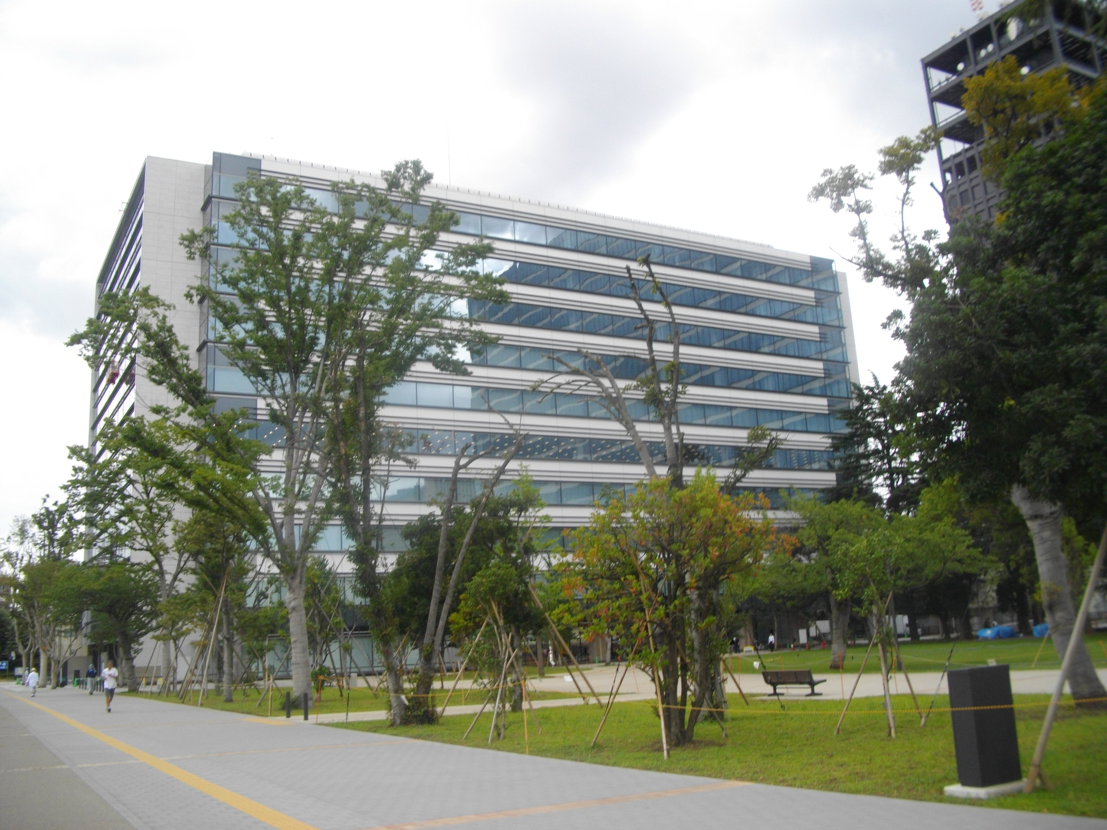 A photo of Nakank Central Park East Building,Nakano,Nakano-ku,Tokyo,Japan.